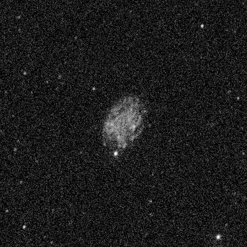 NGC 5300 on GALEX sky survey